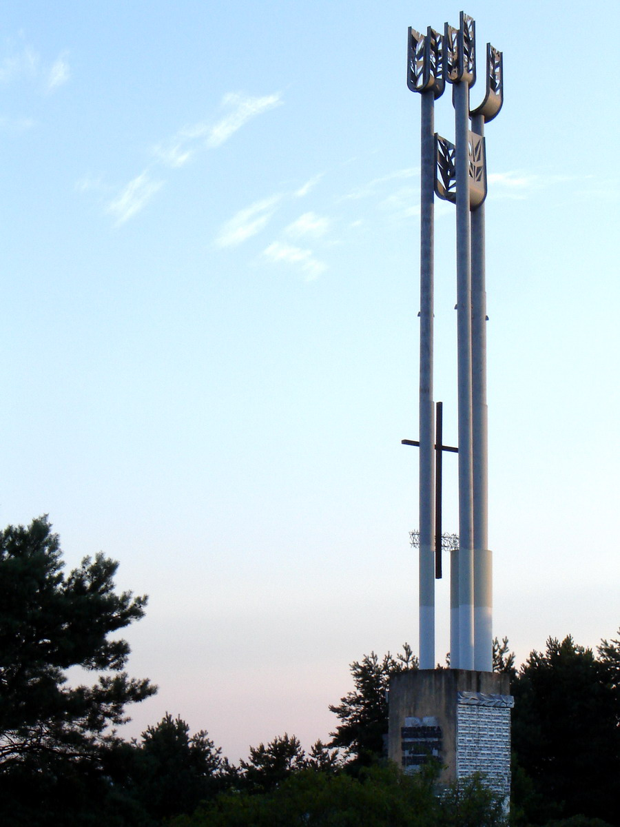 Monument in the Valley of Death in Bydgoszcz, Poland